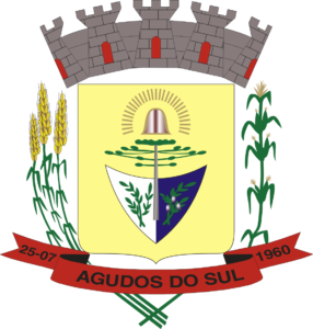 Coat of arms of the city of Agudos do Sul